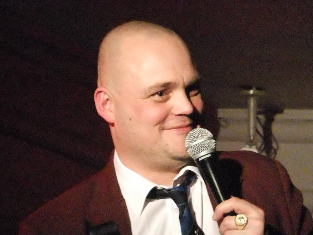 at los quattros cvnts